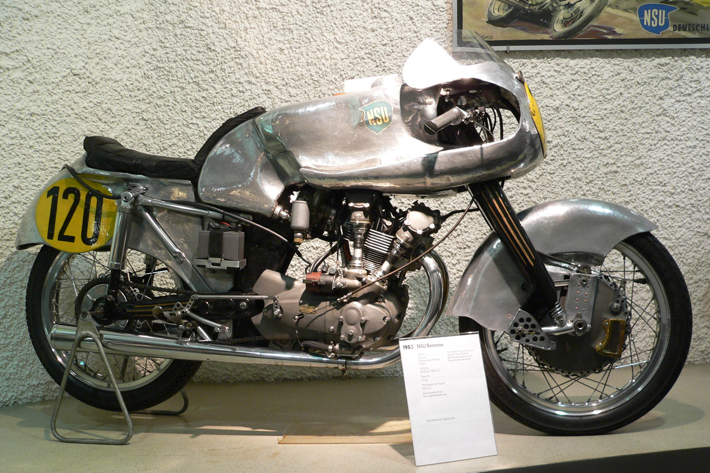 Racing Motorbike "NSU RennMax" (1953) at the Deutsches Zweirad- und NSU-Museum (248 cm³, Zweizylinder-Viertakt (dohc), 36 PS bei 11.000 U/Min., 117 Kg, 210 Km/h) with this motorcycle Werner Haas won german & world championchip 1953